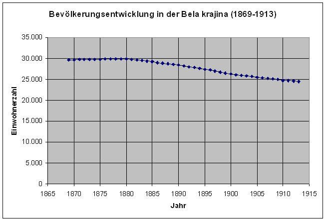 Bela krajina region's population, Slovenia (at that time part of Austria-Hungary: Tschernembl county/district), (1869-1913).